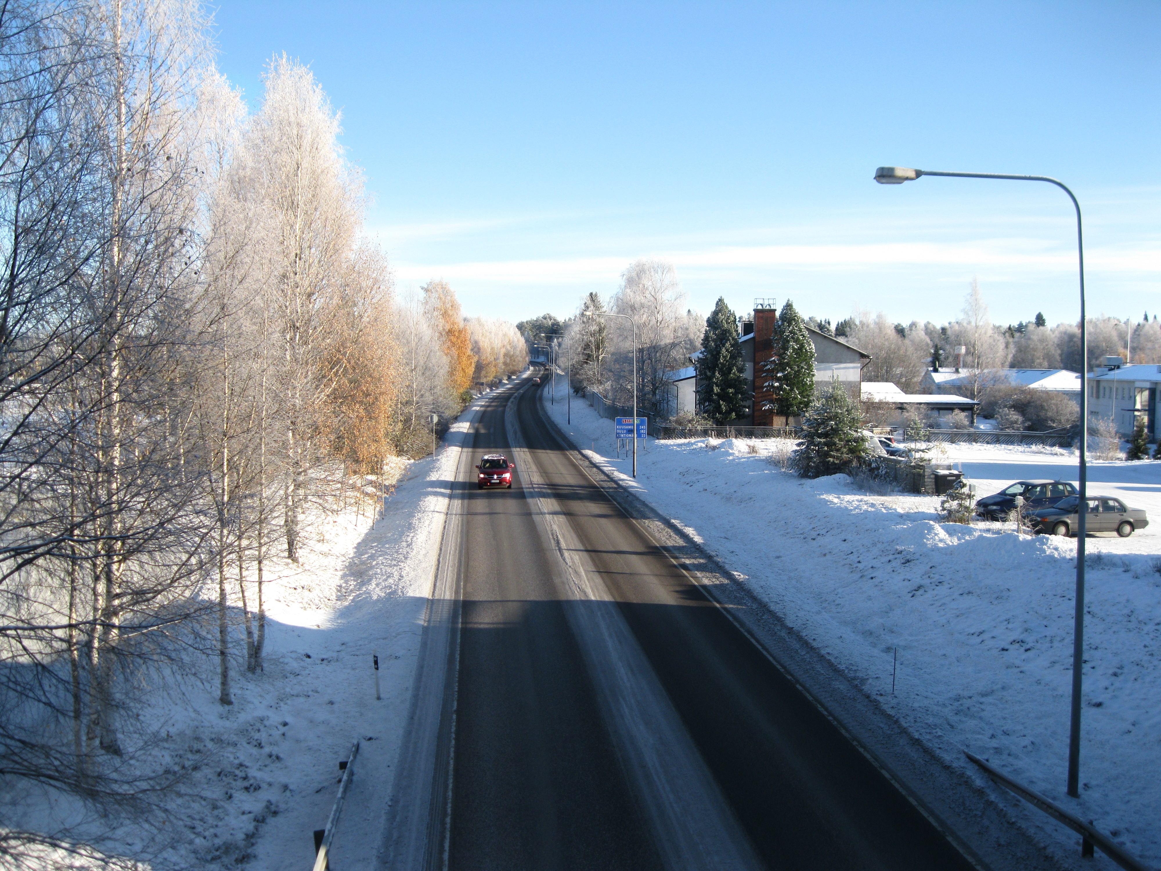 Main road 5 (E63) in Kajaani, Finland.